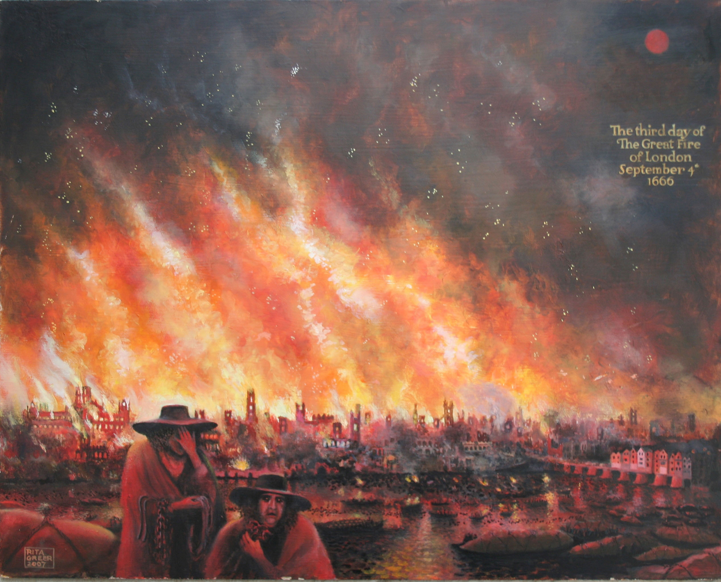 'The Great Fire of London 1666'. The City is depicted on September 4th, the third day of the fire. Robert Hooke was in London at the time. Fortunately, the fire did not reach his rooms at Gresham College. Such terrifying destruction is on a par with the firestorms after World War II bombings. The narrow streets, timber-framed, thatched houses would later be replaced by brick, stone and tiled buildings to prevent such a tragedy happening again. Oil on board. Rita Greer 2008.